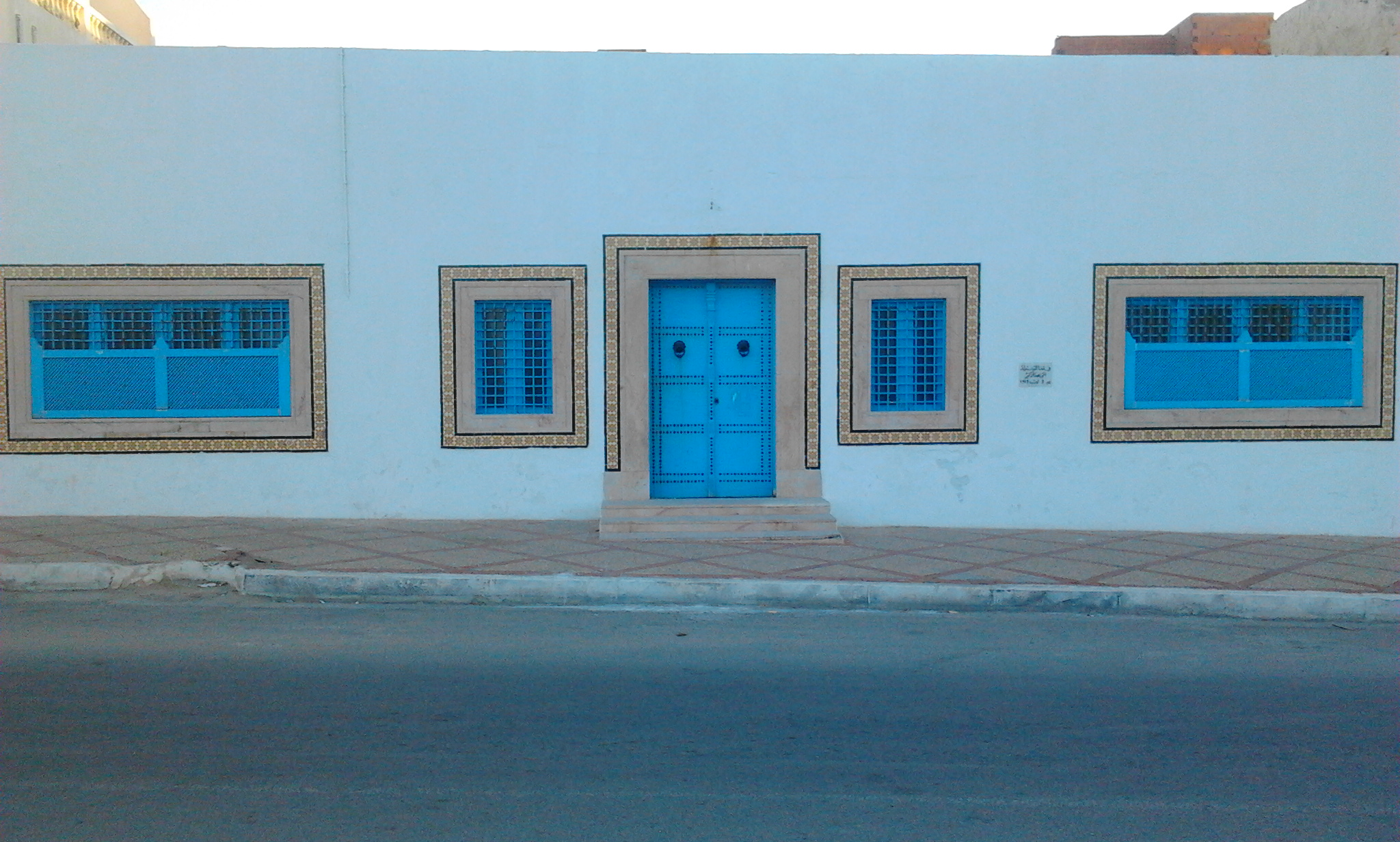 Home of the birth of Bourguiba Square August 3, 1903 (Al qaraïah street - Monastir)